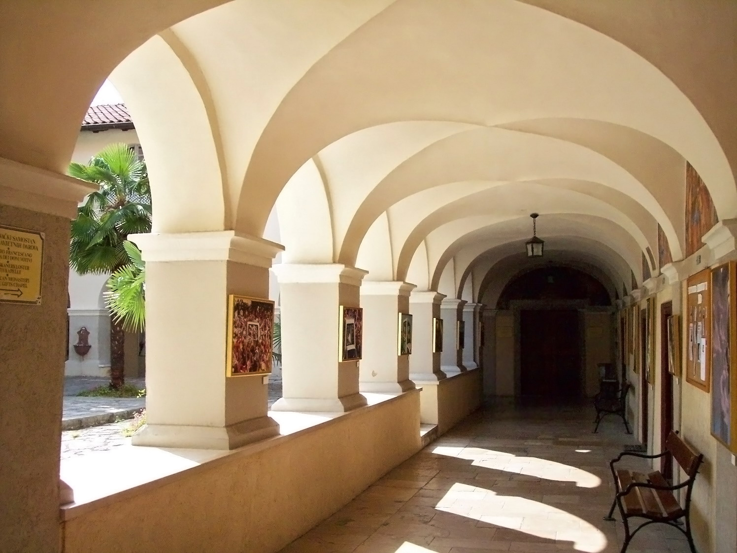 Church of Our Lady in Trsat district of city Rijeka (Croatia)